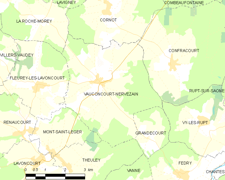 Map of French municipality